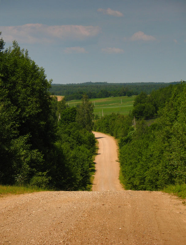 Steep gravel road near Navasady